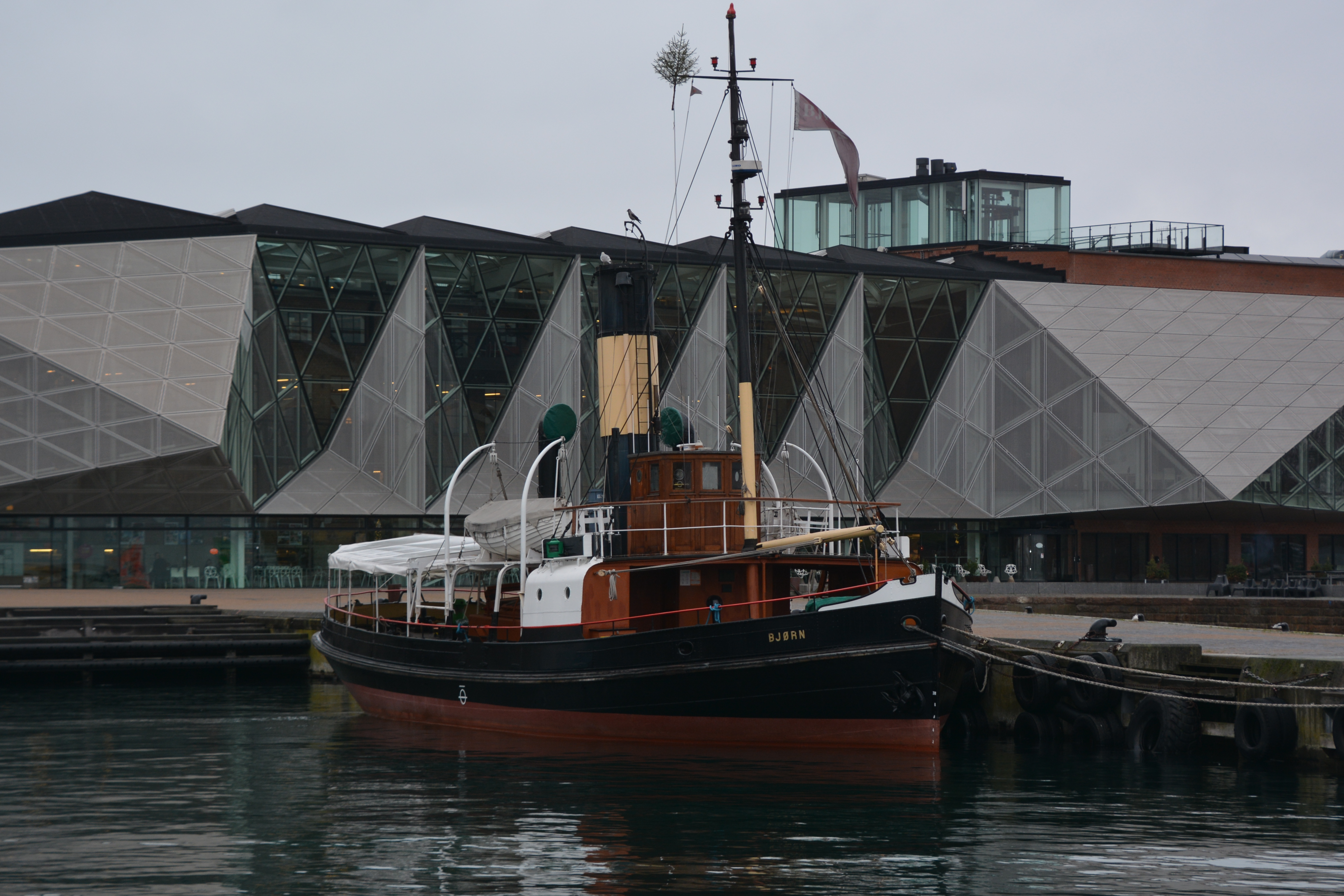 Bogserbåtern Björn framför Kulturvaerften i Helsingör